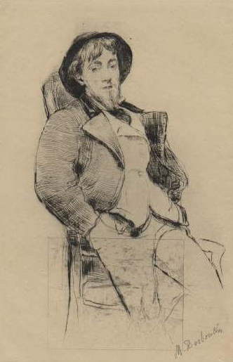 1876 Medium